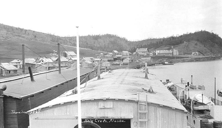 Caption on image: Holy Cross, Alaska PH Coll 247.766 Holy Cross is located in Interior Alaska on the west bank of Ghost Creek Slough off the Yukon River. It is 40 miles northwest of Aniak and 420 miles southwest of Fairbanks. Holy Cross first had contact with Europeans in the early 1840s, when Russian explorers led by Lt. Zagoskin traveled the Yukon River. They reported "Anilukhtakpak" with 170 people. In 1880, the village was reported as "Askhomute" with 30 residents. A Catholic mission and school were established in the 1880s by Father Aloysius Robaut, who came to Alaska across the Chilkoot Trail. Ingalik Indians migrated to Holy Cross to be near the mission and school. A post office was opened in 1899 under the name "Koserefsky. In 1912, the name of the town was changed to "Holy Cross" after the mission. In the 1930s and 40s, sternwheelers brought the mail and supplies two or three times a year. The course of the River changed during the 1930s, and by the mid-40s, the slough on which the village is now located was formed. The mission Church and many additional buildings were torn down after the boarding school ceased operations in 1956. Subjects (LCSH): Holy Cross (Alaska); Cities and towns--Alaska--Holy Cross